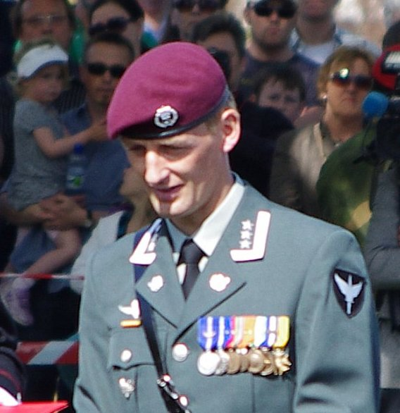 Colonel Eirik Johan Kristoffersen prior to receiving the War Cross w/Sword at a ceremony 8 May 2011